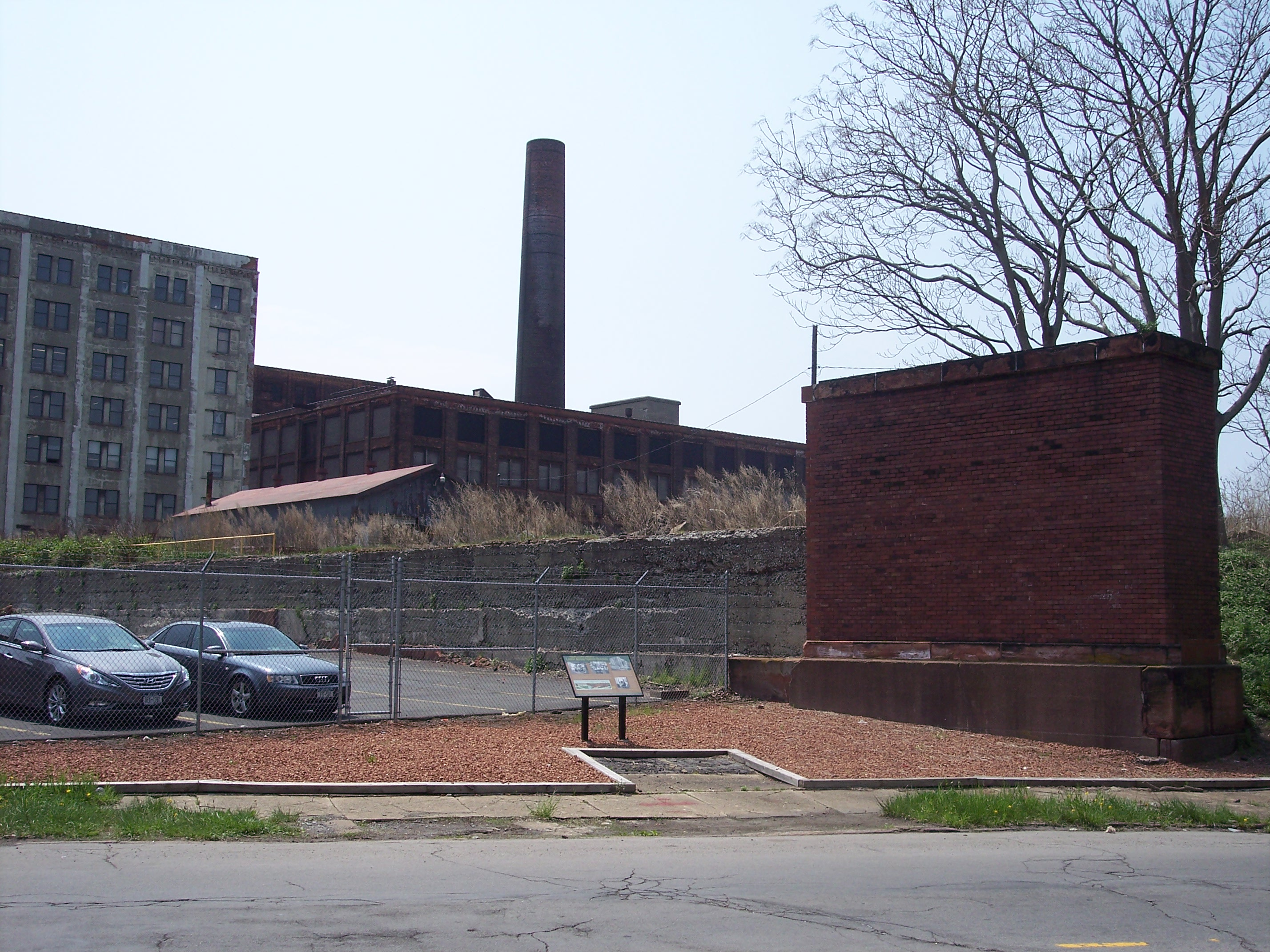 What remains of the Larkin Administration Building in Buffalo NY